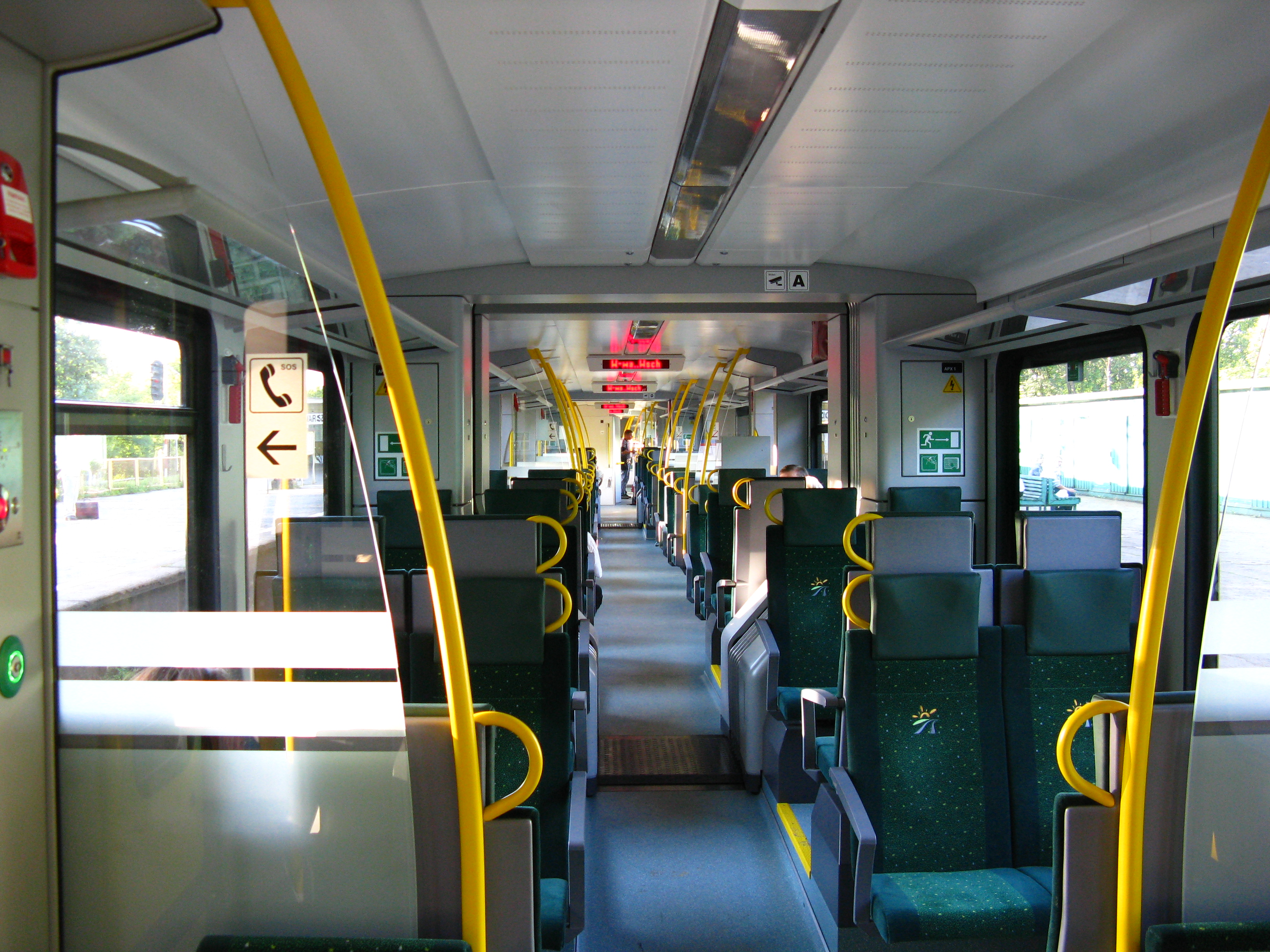 Stadler FLIRT regional train inside. Taken in Warsaw, Poland.